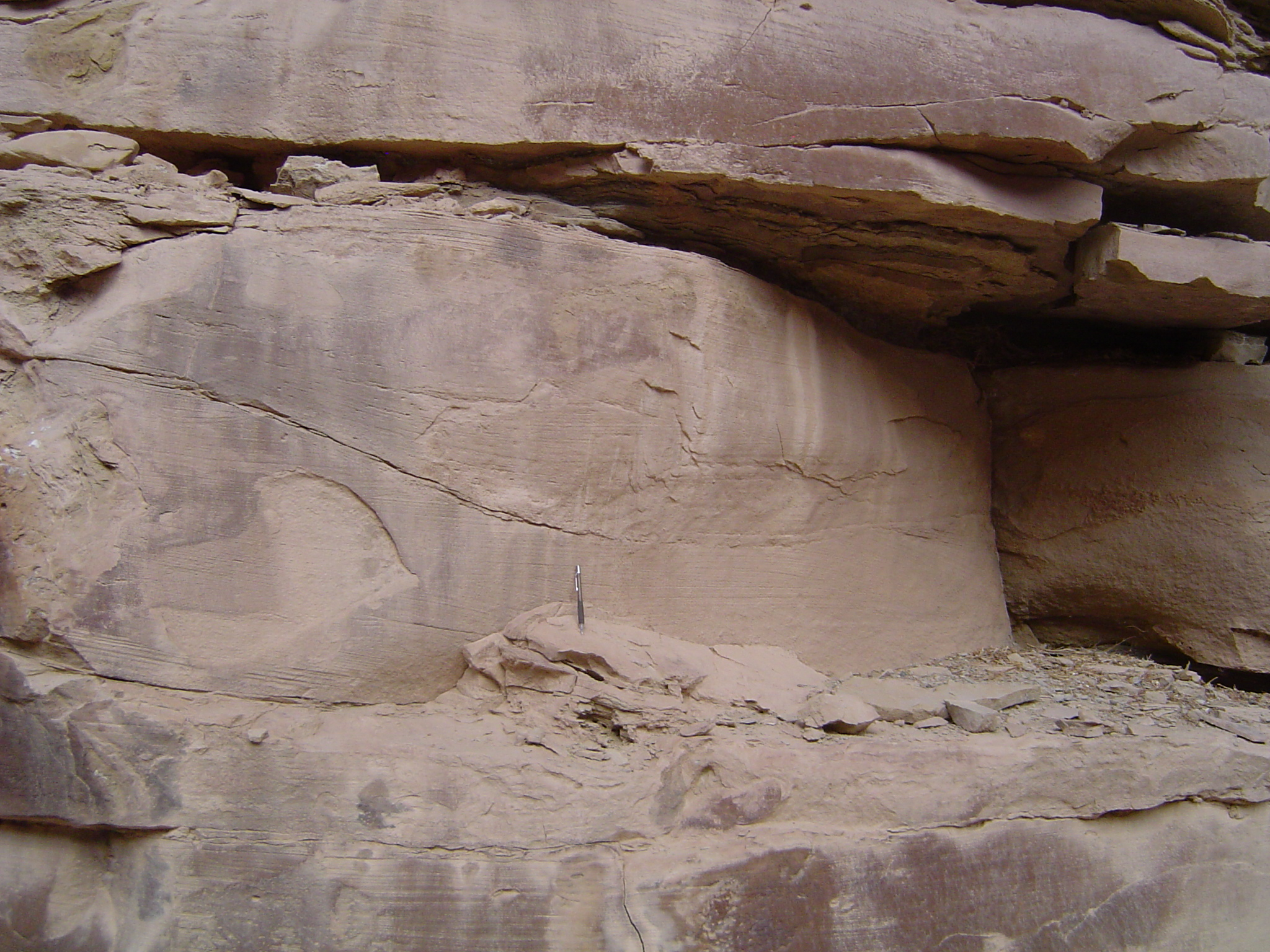 Hummocky cross-stratification. Book Cliffs, Utah. Pencil for scale. Just above the pencil is a curved crack, which is at the base of a 'hummock'.